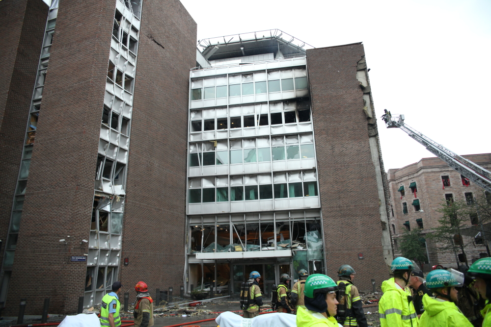 Picture of the damage done to the Norwegian Ministry of Petroleum and Energy after it was bombed in 2011